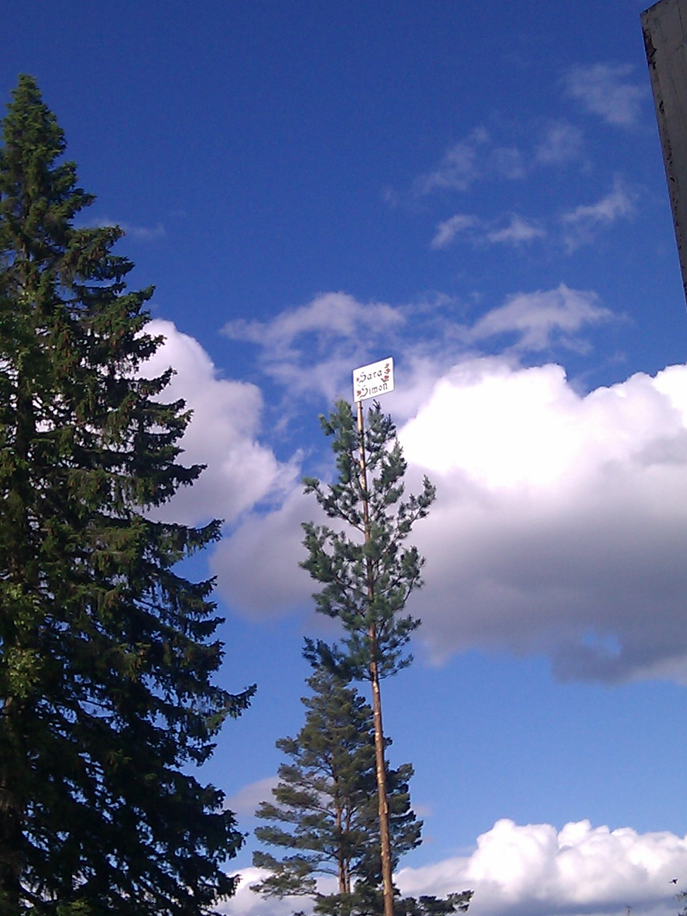 A "malltavla" from a "mallresning" (old Swedish ceremonial wedding tradition).